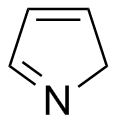 2H-Pyrrole